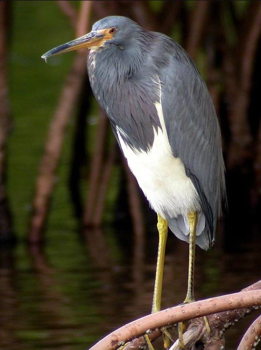 Tricolored Heron (Egretta tricolor). We try to visit family each year in Florida, and the birding is a bonus. We stayed one year at a condo complex in Tarpon Springs (Mariner Cove), and had some of the best birding of the trip 5 minutes from our door. A short walk gave view of a mangrove swamp, where we saw no less than 12 ciconiiform species in one hour. I think it was this trip that made me fully dedicated to digi-scoping. The Tricolored Heron is a coastal bird, and a frenetic feedere, sometimes dashing about as if all the fish are about to leave if not caught in the next 5 seconds.